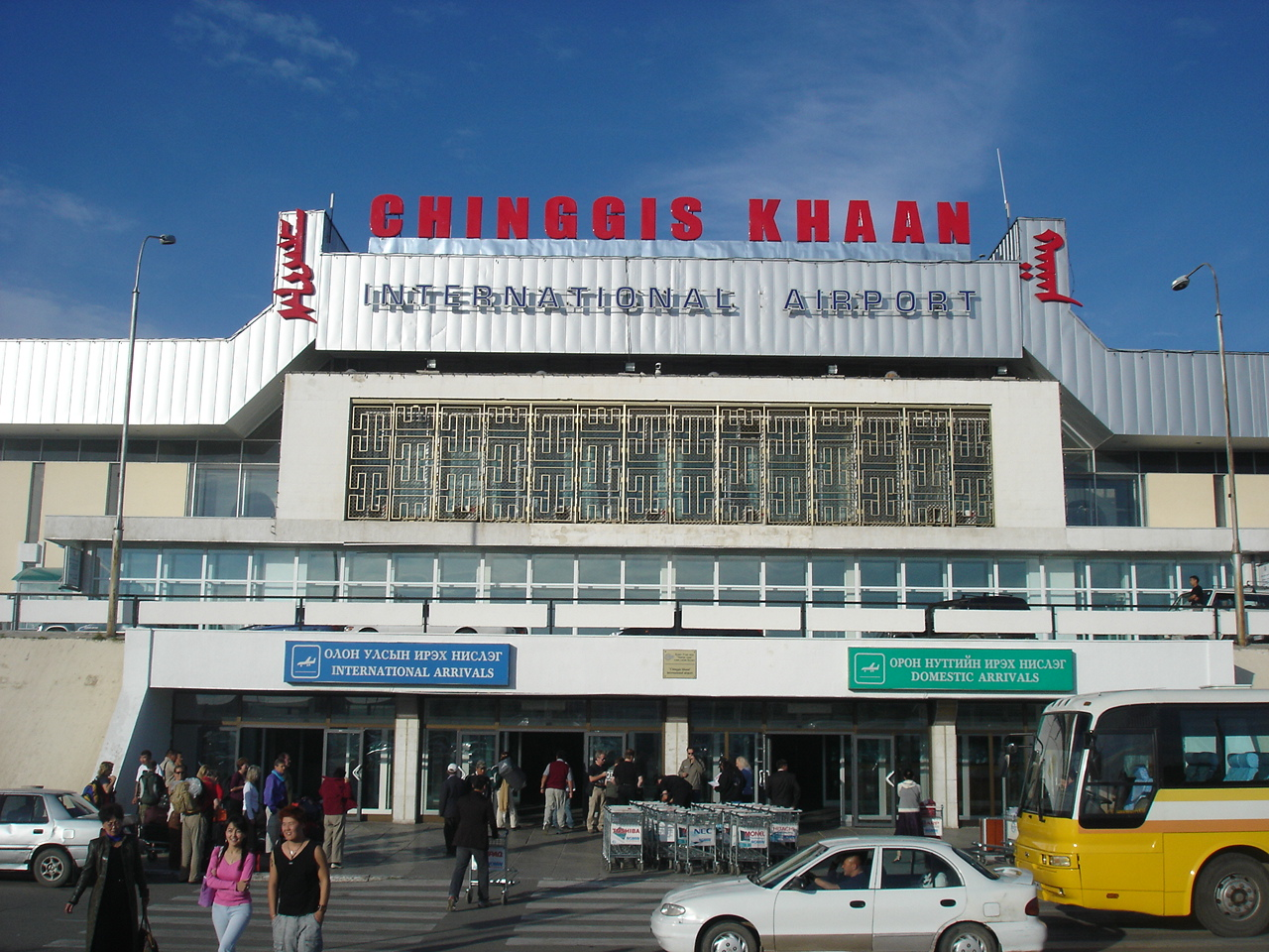 Ulaan Bataar International Airport